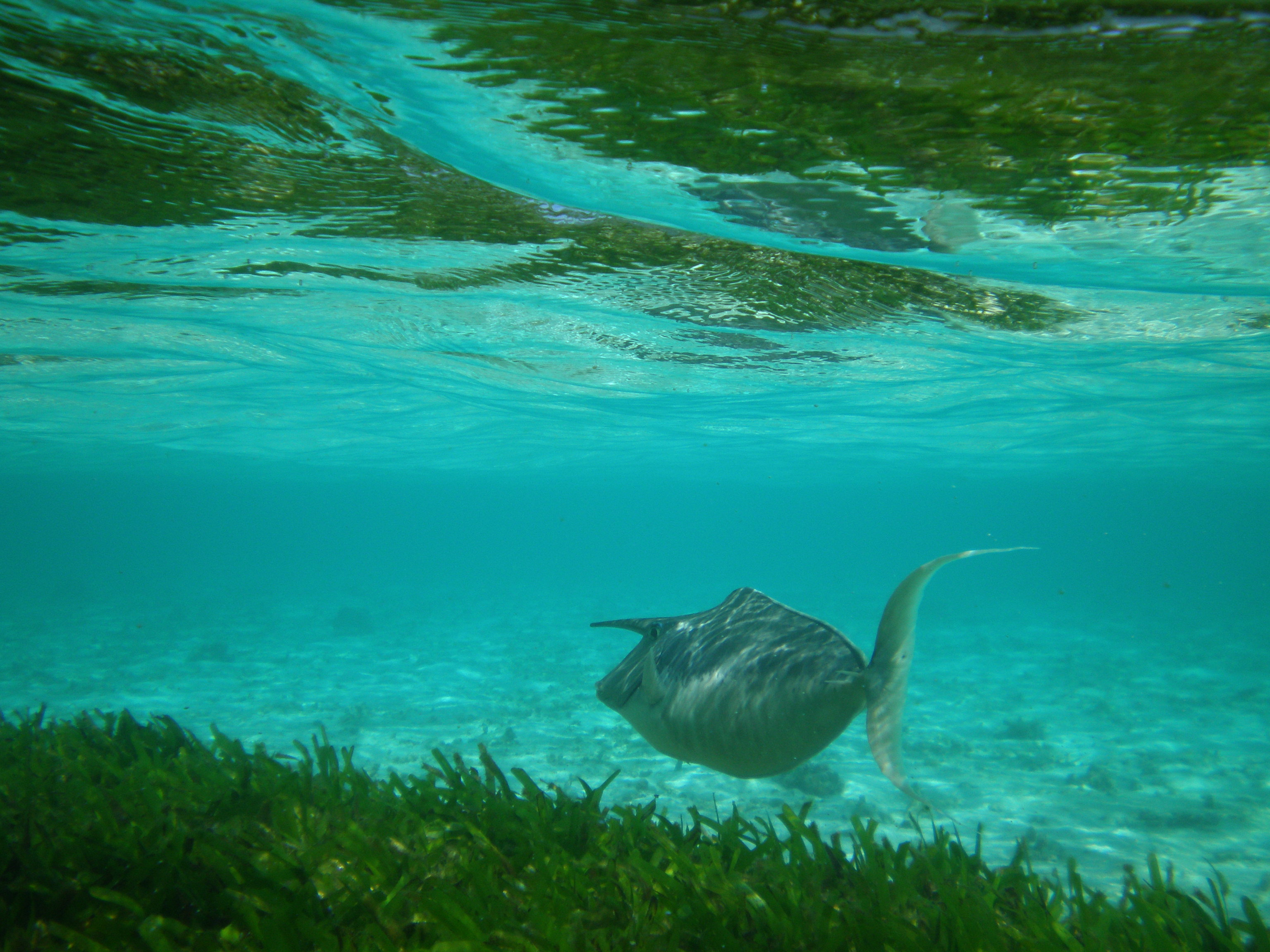 Maldives Humpback unicornfish, Naso brachycentron